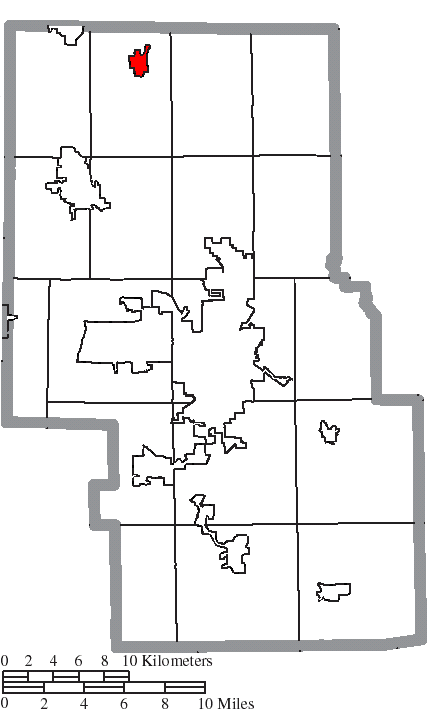 Map of the municipal and township boundaries of Richland County, Ohio, United States, as of the 2000 census, with the location of the village of Shiloh highlighted. Township borders are shown only in unincorporated areas in order to differentiate incorporated and unincorporated areas more clearly.